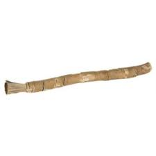 Stik Kayu Kunyah yang dipakai sebagai sikat gigi pada 3.500SM